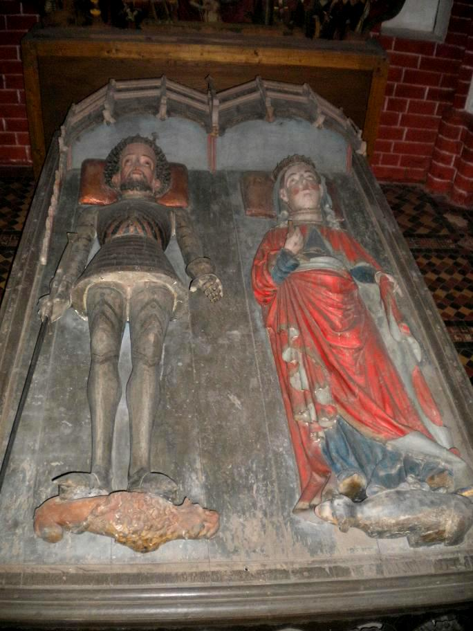 Grave monument of King Albert of Sweden in Doberan Minster, as released by image creator Ristesson; Place: Bad Doberan, Germany